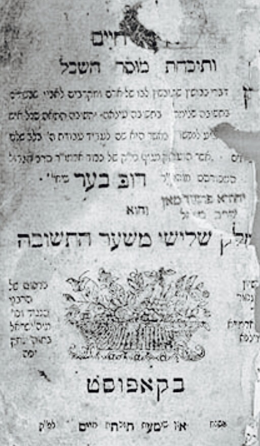 Derech Chaim, a book on repentance by Rabbi Dovber Schneuri, Kapust edition